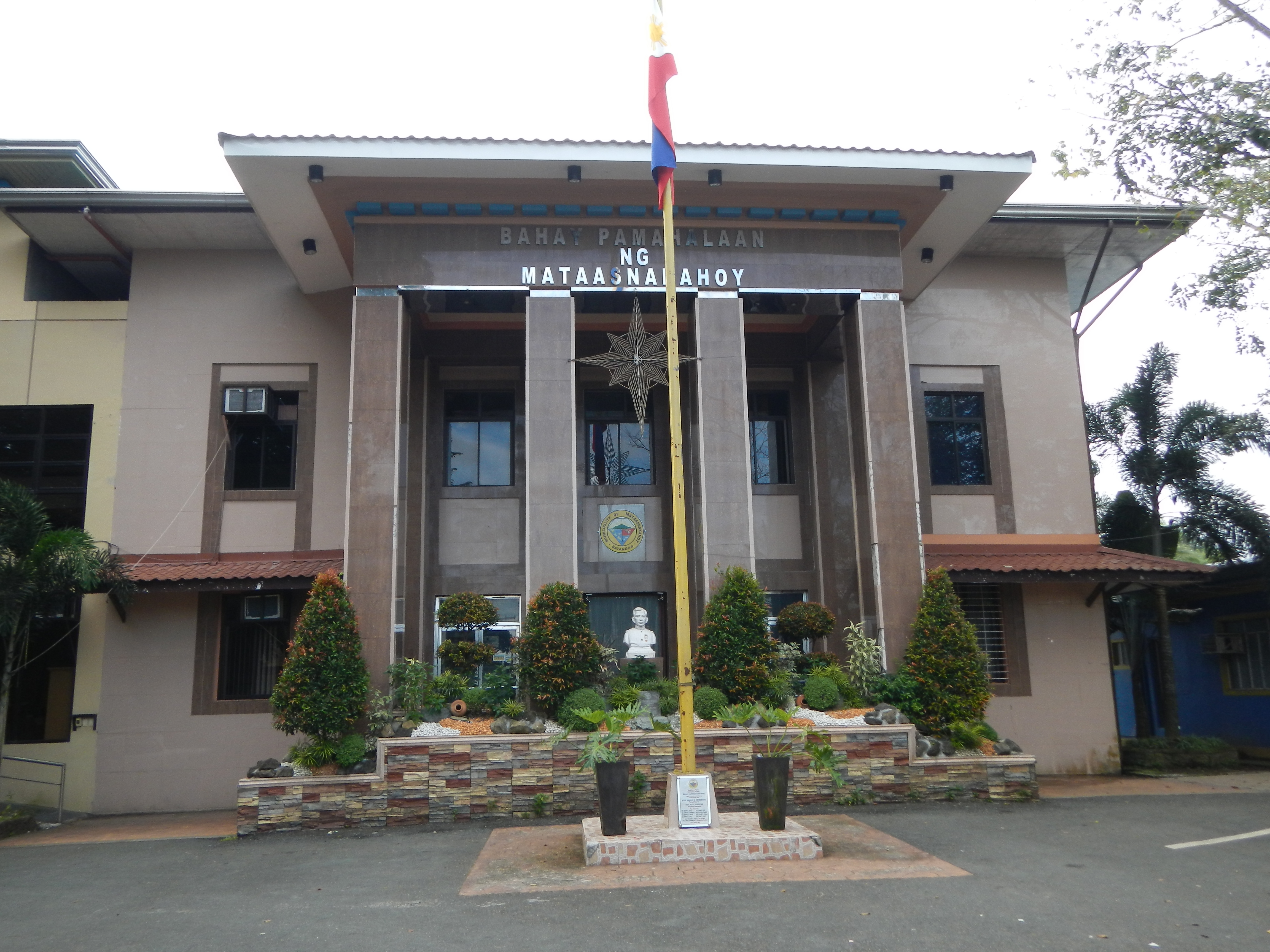 Upload Wizard photos of -- the - (Mayor Danilo M. Sombrano Covered Court, beside the) Mataas na Kahoy Municipal Hall, Mataas na Kahoy, Batangas[1] (a 4th class municipality in the Province of Batangas, Philippines; 2010 census, it has 27,177 people; created by virtue of Executive Order No. 308 signed by George Butte, acting Governor General of the Philippines on March 27, 1931, effective January 1, 1932 has 16 barangays); [2] Geographical location: Batangas, Region 4, Philippines, Asia Geographical coordinates: 13° 57' 30" North, 121° 6' 50" East. [3] Poblacion Coordinates: 13°57'37"N 121°6'52"E, beside the Plaza and near the - Immaculate Conception Parish Church of Mataas na kahoy, Centro, Town Proper, Poblacion.